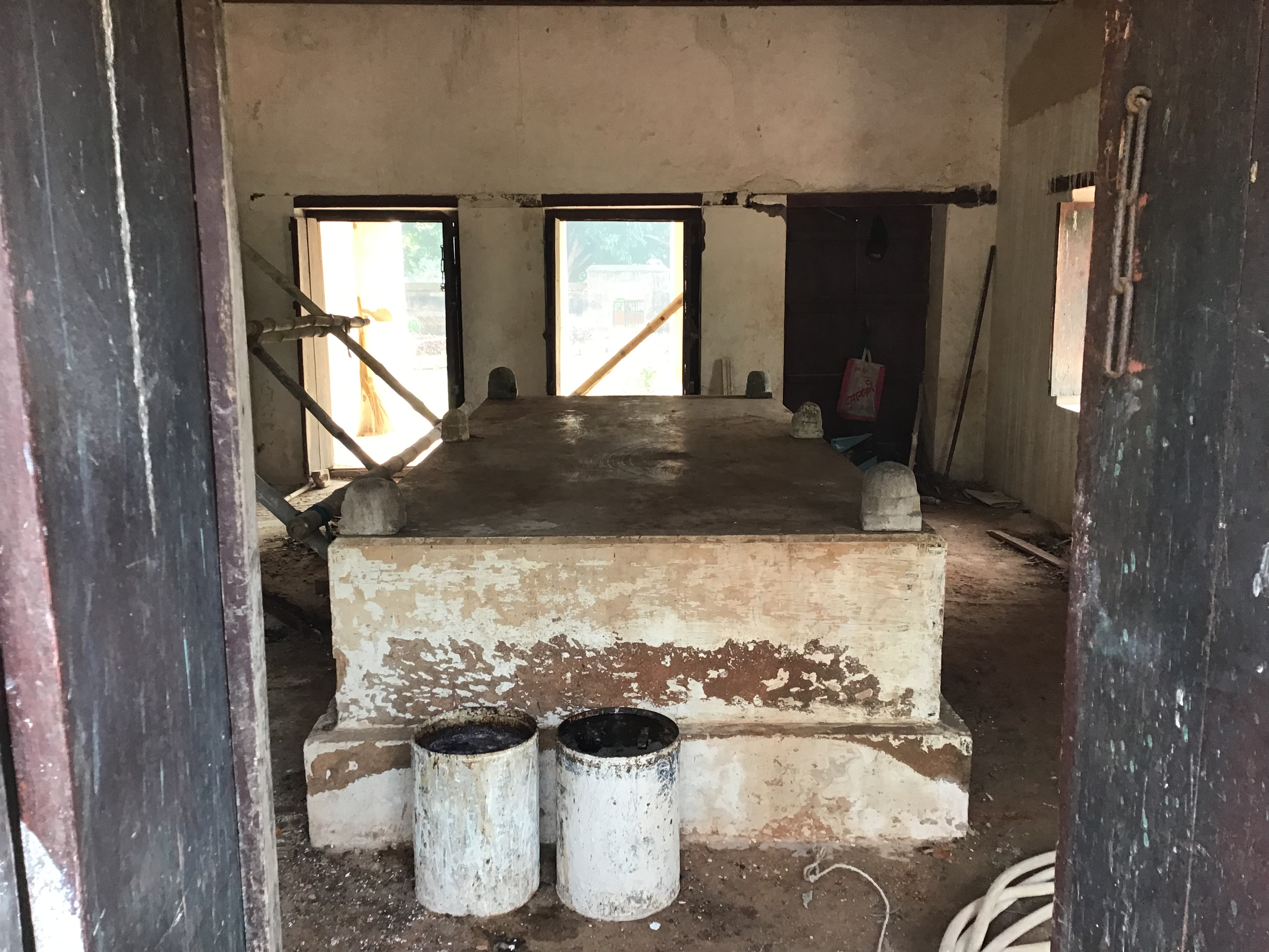 Grave of Shujauddin Muhammad Khan, Roshnibagh , Murshidabad , West Bengal India